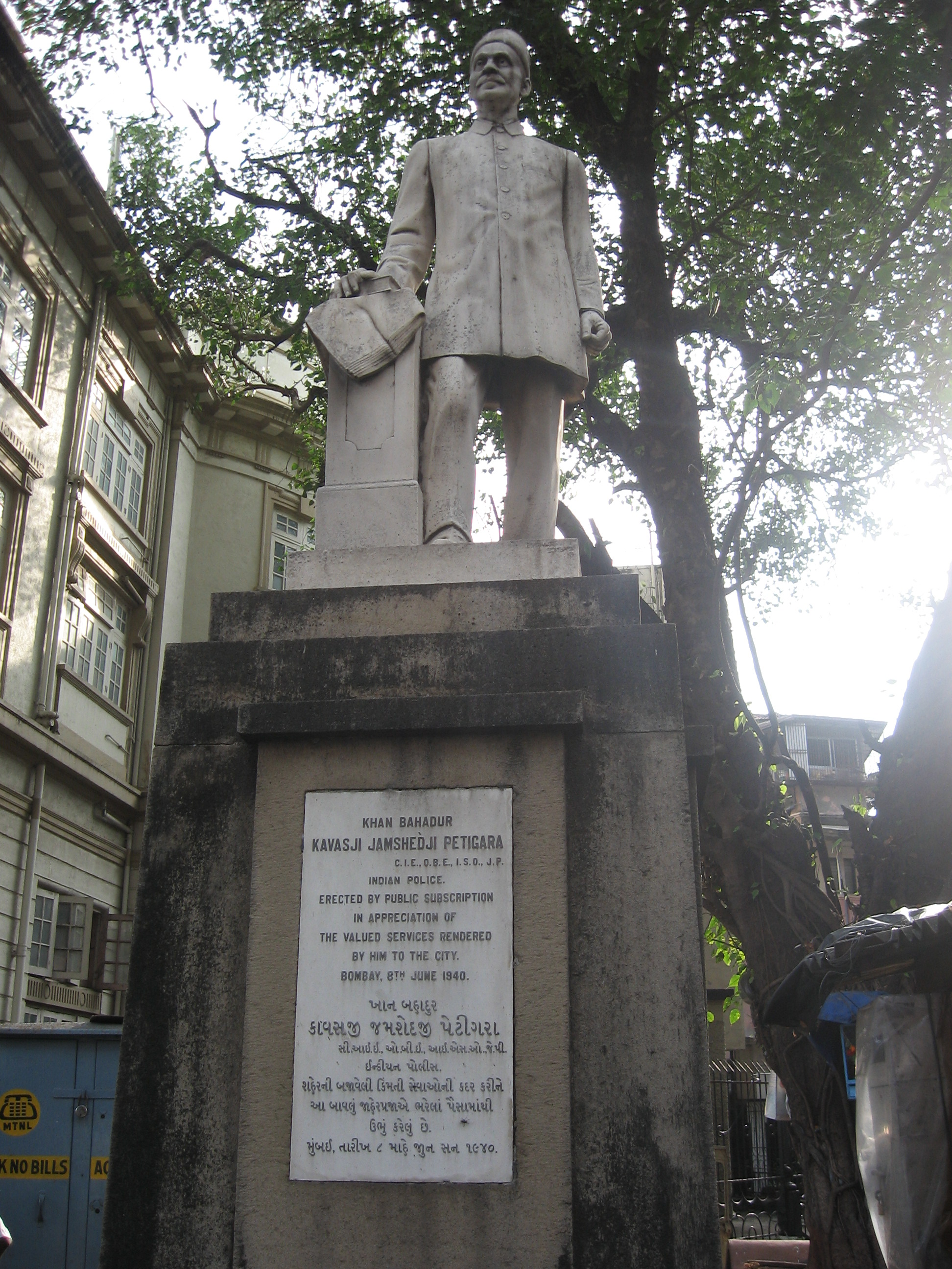 Kavasji Jamshedji Petigara a former police officer of Mumbai